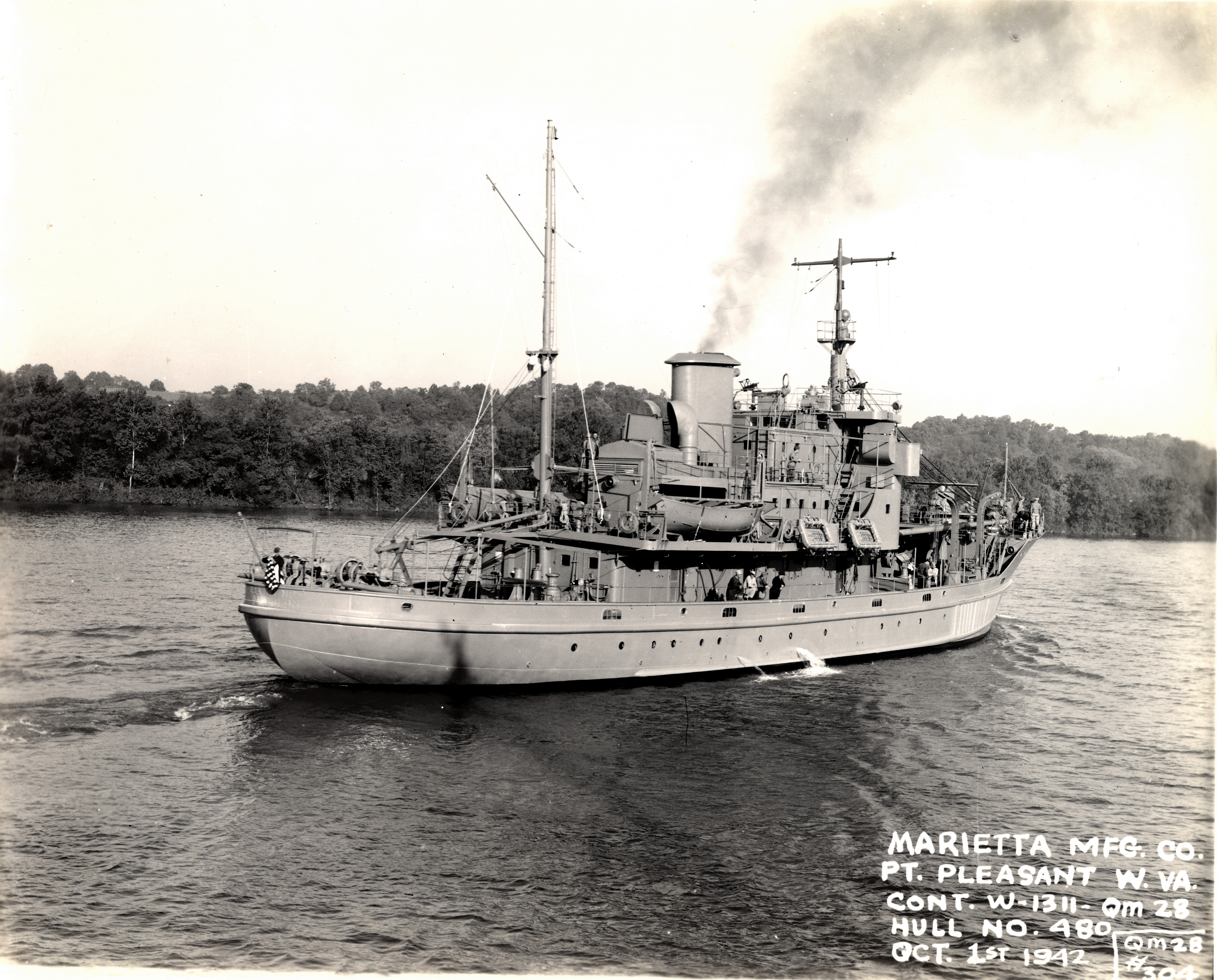 Photo from the records of the Marietta Manufacturing Company of a ship with hull #480, USAMP MP-7 Major General Wallace F. Randolph[1](See enlarged photo, stern), Army M 1 Mine Planter. Randolph transferred to Navy as Nausett (MMA 15) ex-ACM-15 ex-USAMP Major General Wallace F. Randolph[2]. Records (#742), Special Collections Department, J. Y. Joyner Library, East Carolina University, Greenville, North Carolina, USA.